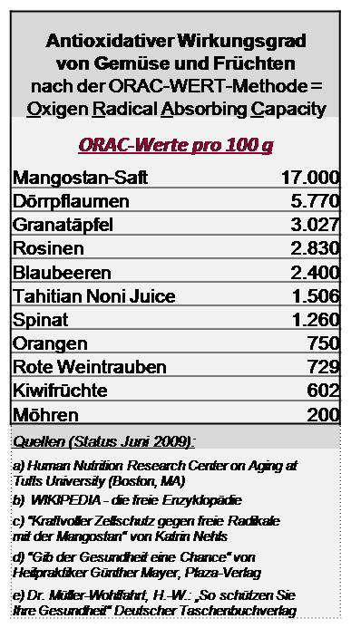 The "Tufts University Boston at Human Nutrition Research Center on Aging (Boston, MA) established the ORAC analysis in order to compare the "OXIGEN RADICAL ABSORBING CAPACITY" of fruits and vegetables